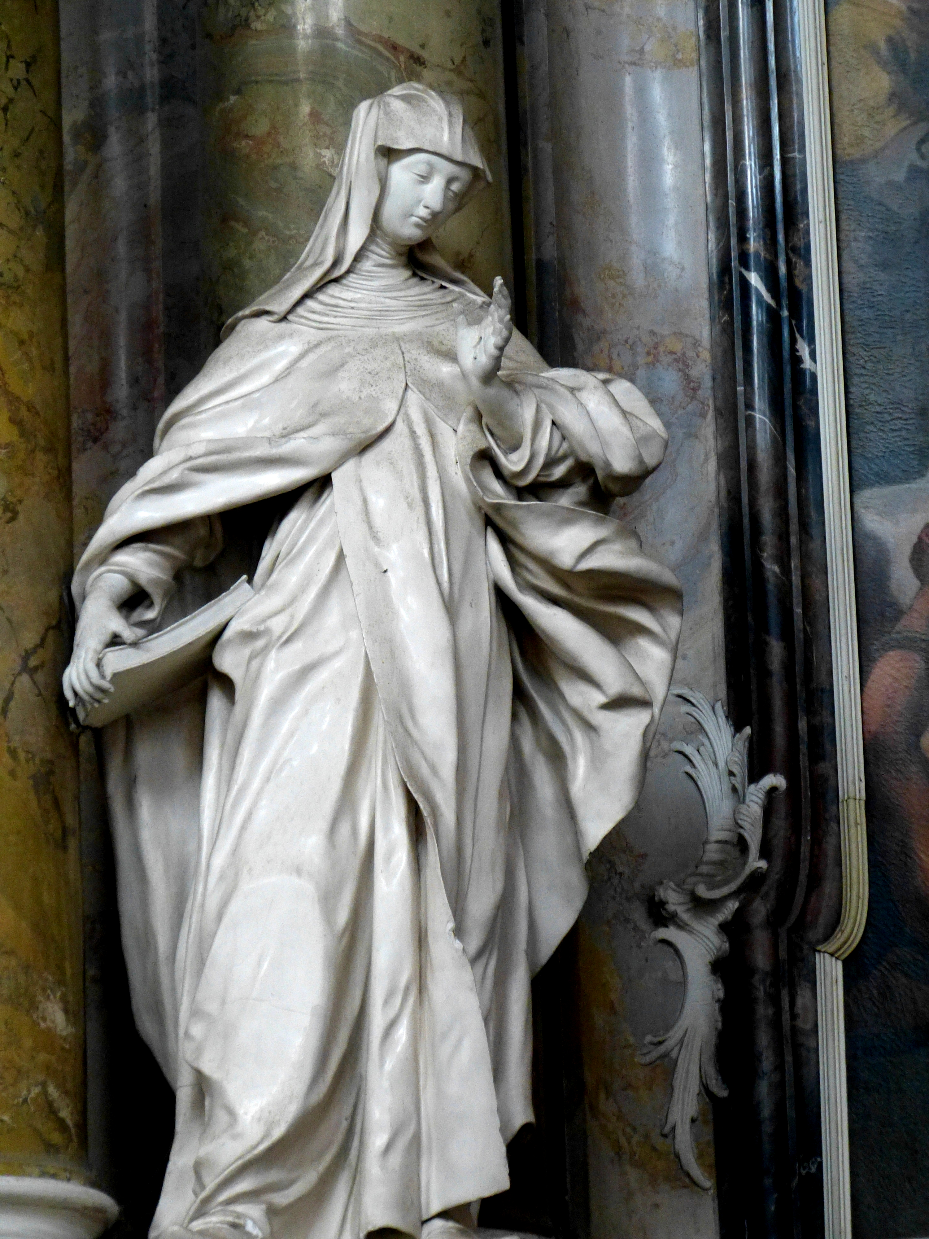 Engelhartszell ( Upper Austria ). Engelszell monastery church ( 1754-64 ) - Altar of Saint John of Nepomuk: Statue of Saint Mechtildis of Hackeborn by Johann Georg Üblhör.